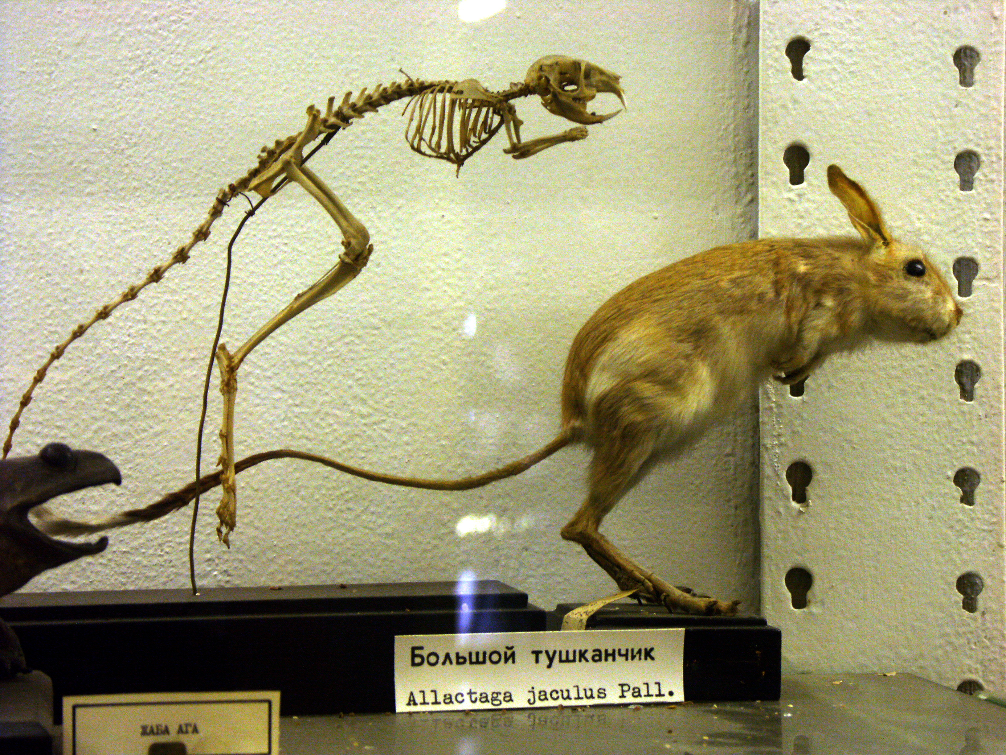 Allactaga major (Kerr, 1792) / synonym: Allactaga jaculus from The Museum of Zoology, St. Petersburg